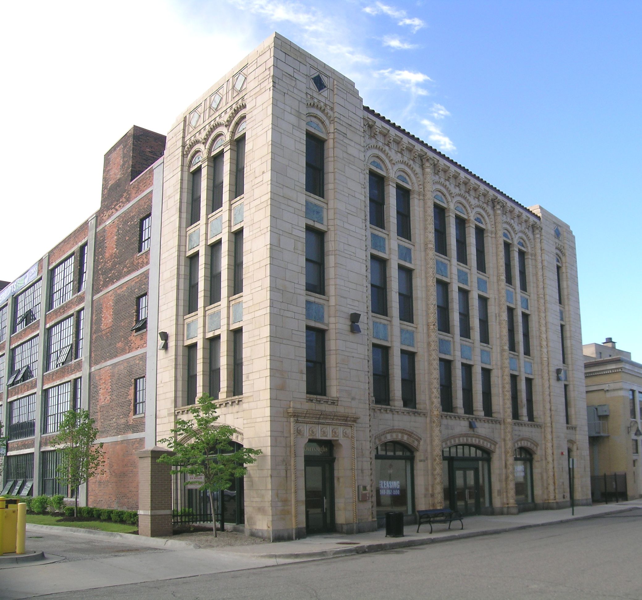 The Graphic Arts Building at 41-47 Burroughs Street in Detroit, Michigan, United States, lies within the New Amsterdam Historic District.